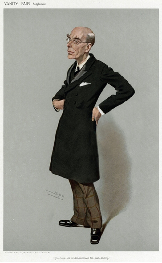 Caricature of Lord Edmond Fitzmaurice MP. Caption read "He does not under-estimate his own ability".